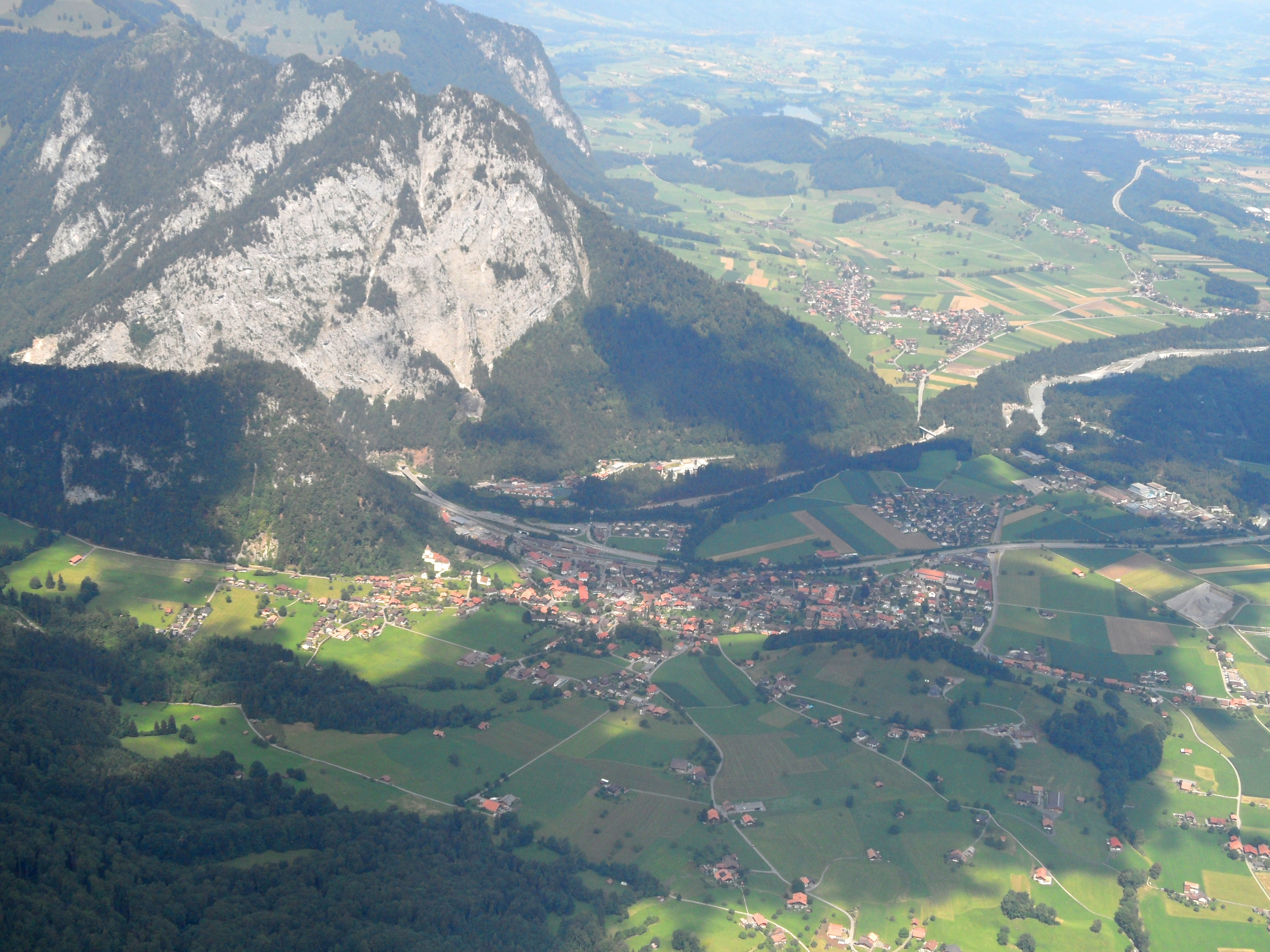 Wimmis by air